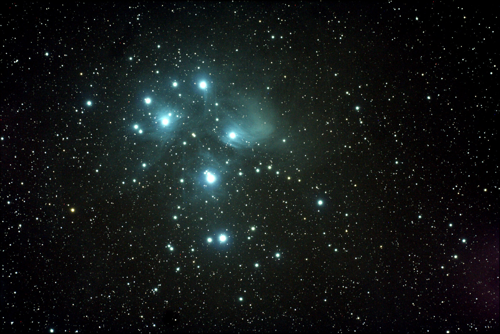 This image was taken from my backyard telescope in Kalkaska MI December of 2006. The image not only shows M45 (an open cluster) but also shows the dust around the cluster.